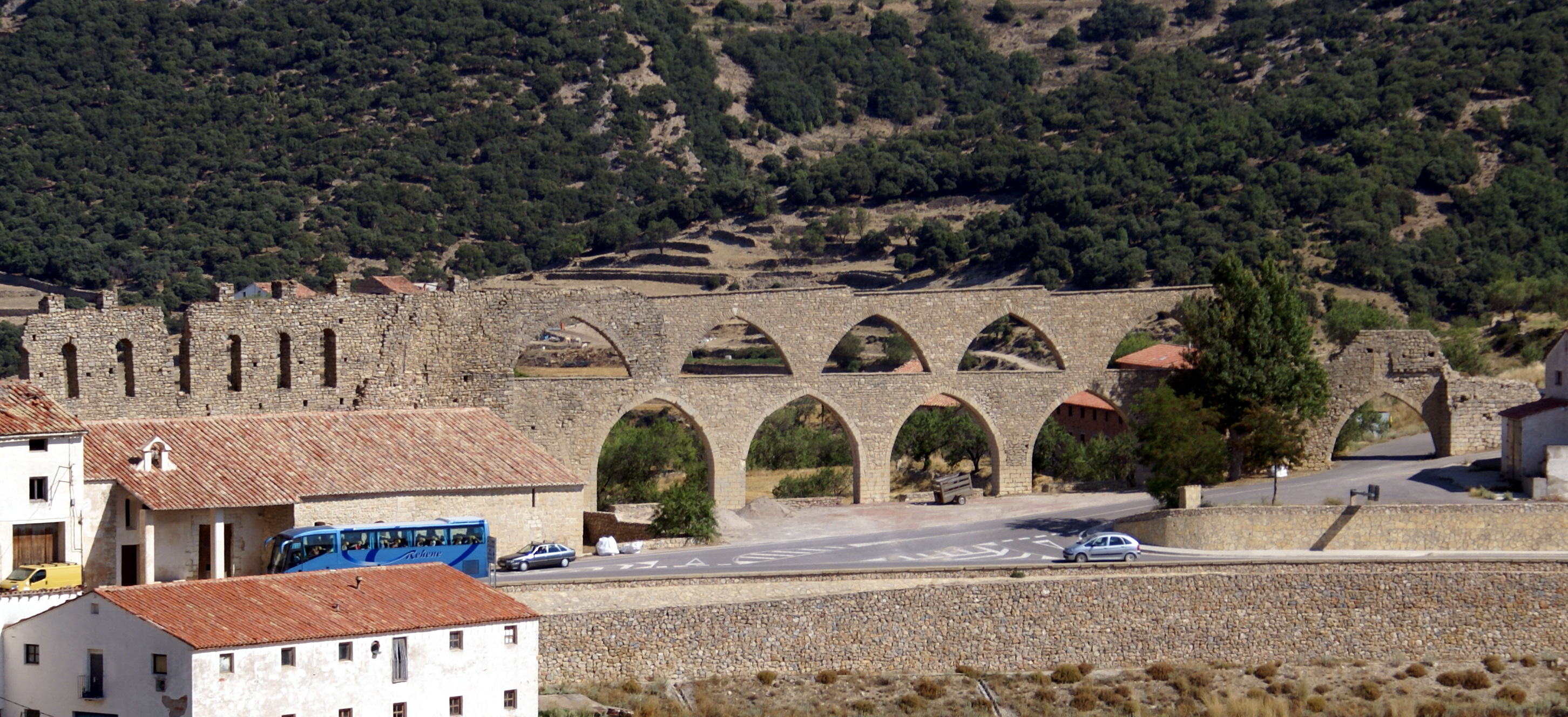 Aqueduct of Morella, Castellón, Spain.